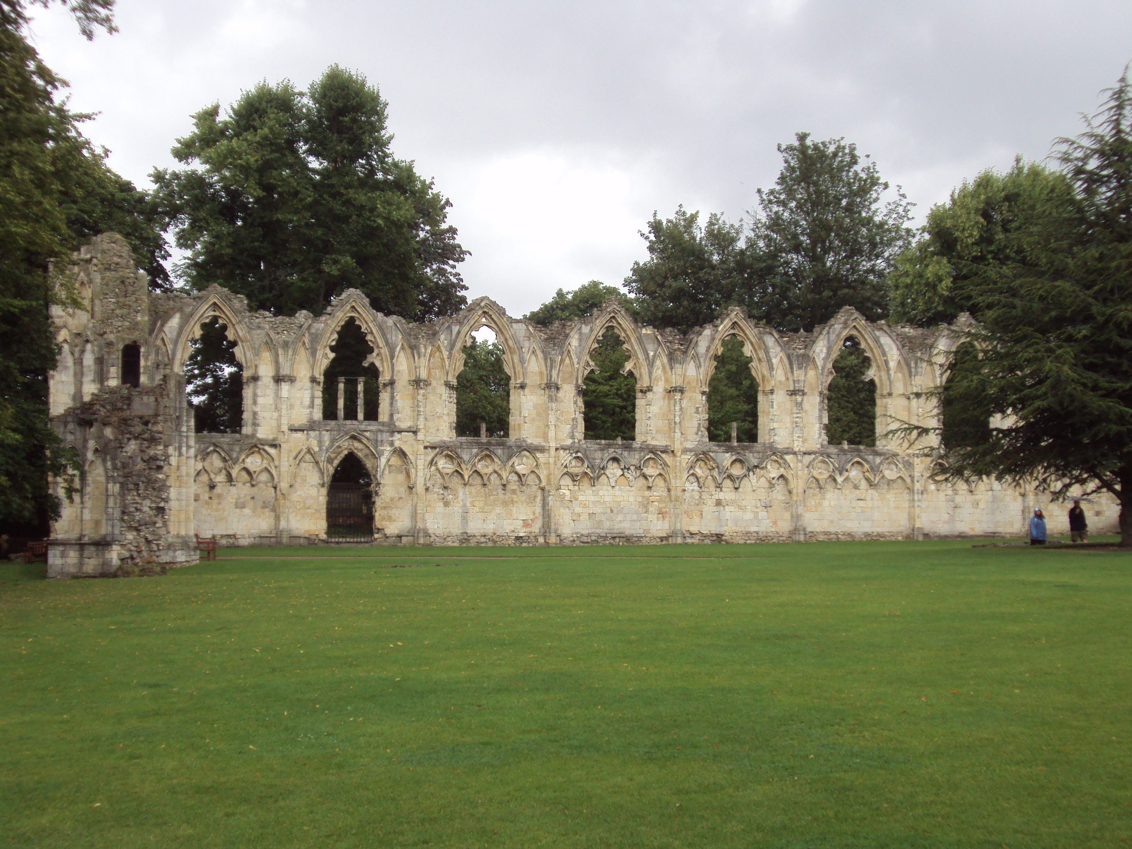 Ruins of St Mary's Abbey, York.